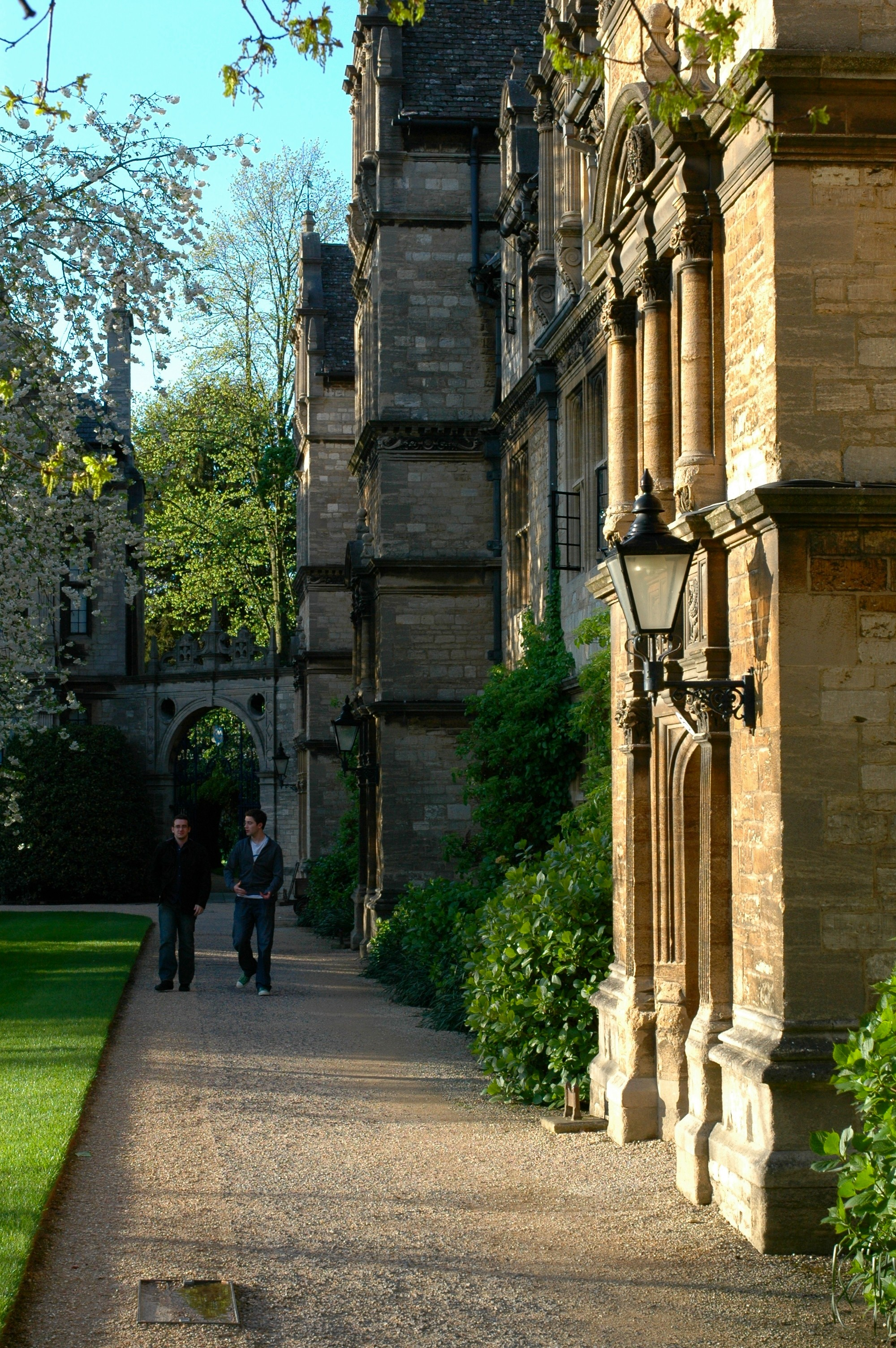 Trinity College